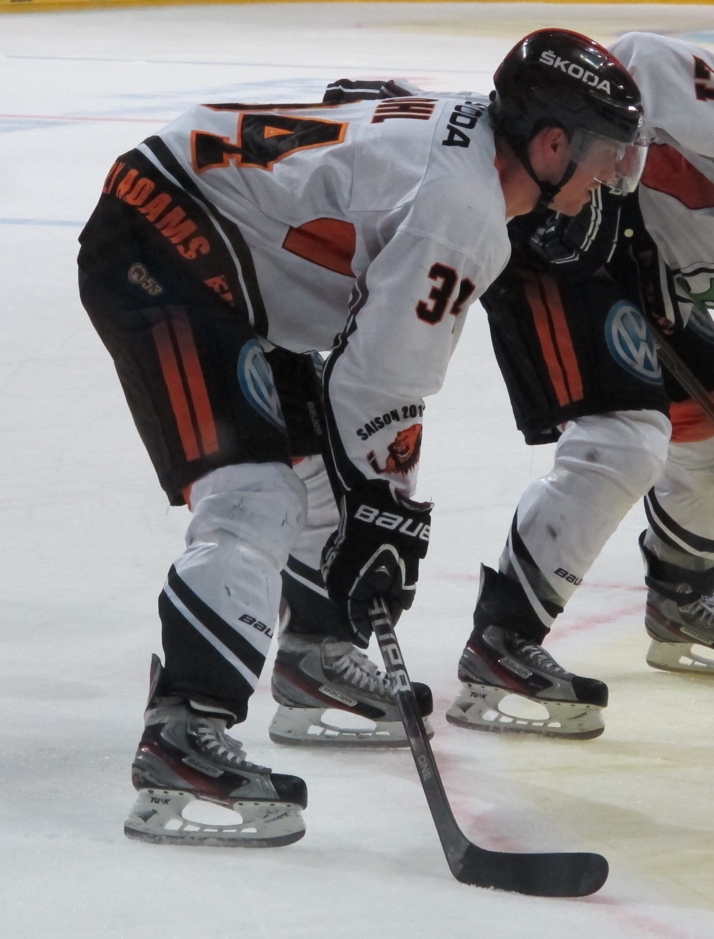 Benedikt Kohl, german ice hockey player, defenseman